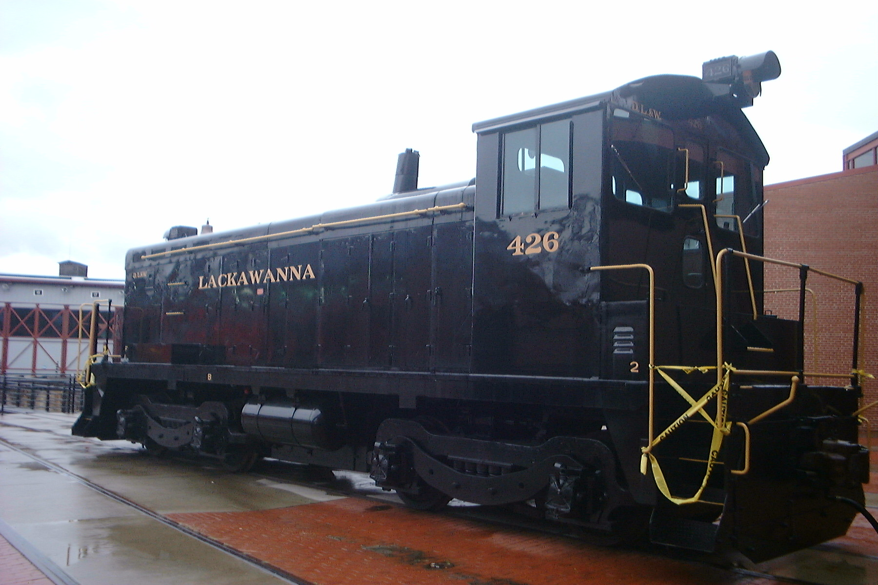 Delaware-Lackawanna Railroad 426 EMD preSC at Steamtown,Scranton,PA